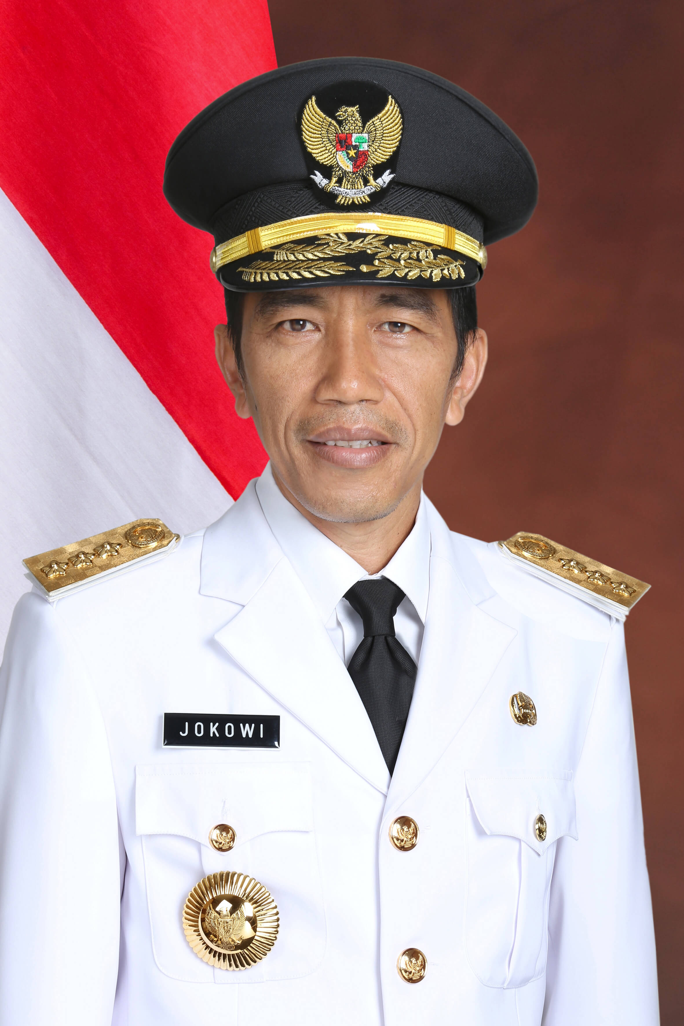 Joko Widodo, Gubernur Provinsi Daerah Khusus Ibukota Jakarta periode 2012—2014.